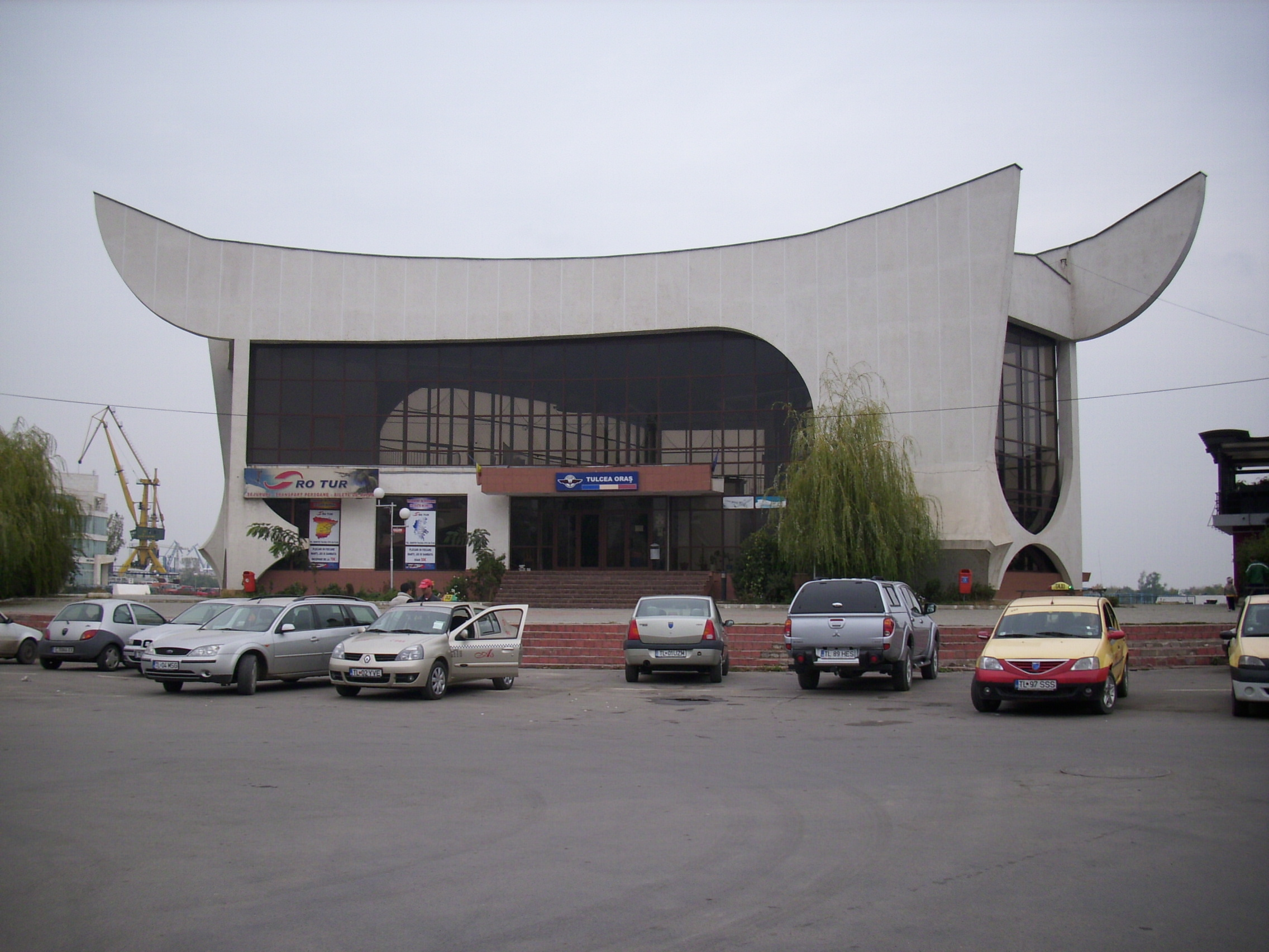 Tulcea - the railway station